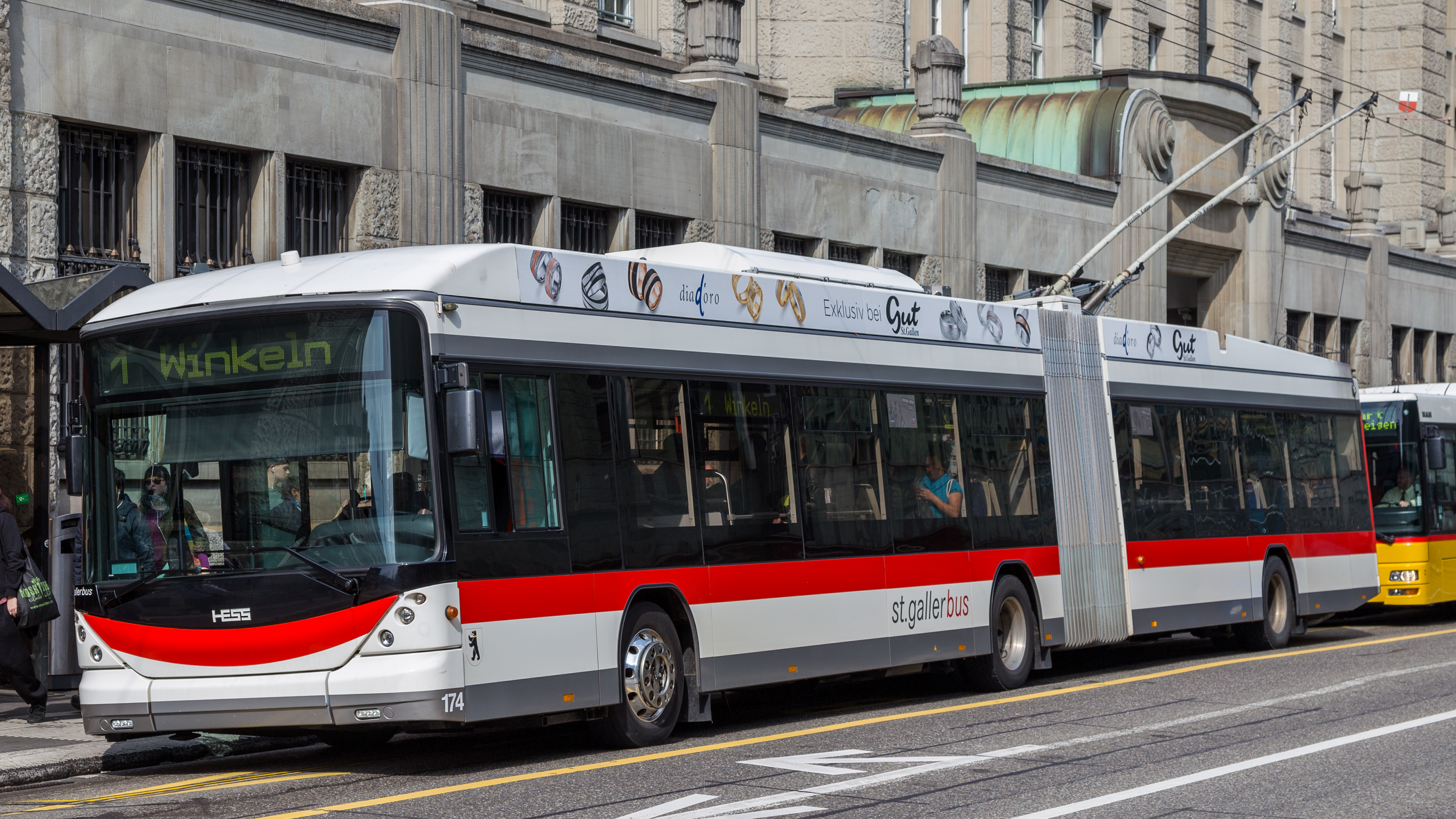 Hess Swisstrolley 3 of st.gallerbus at St. Gallen central railway station